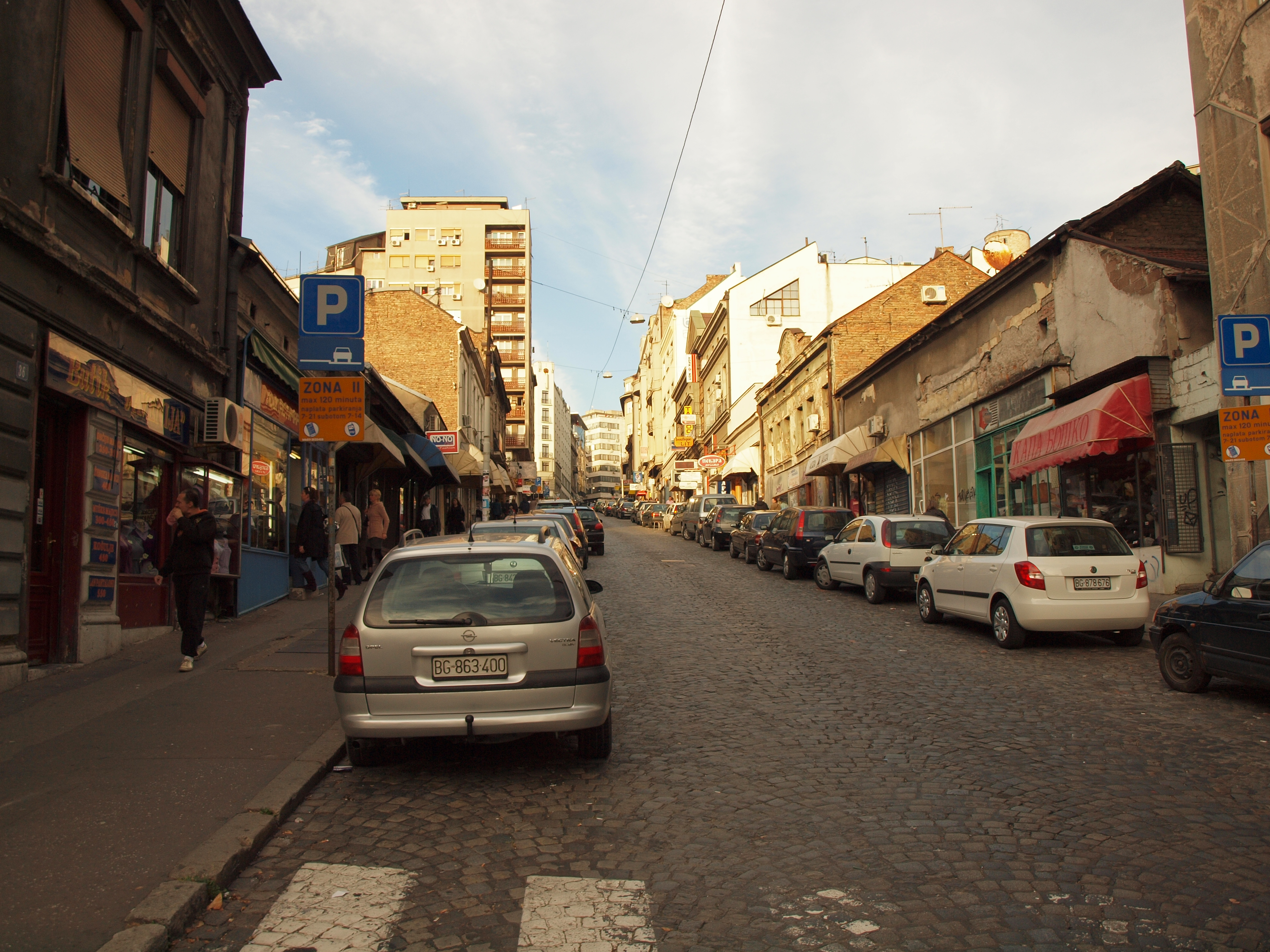 B. u. B.